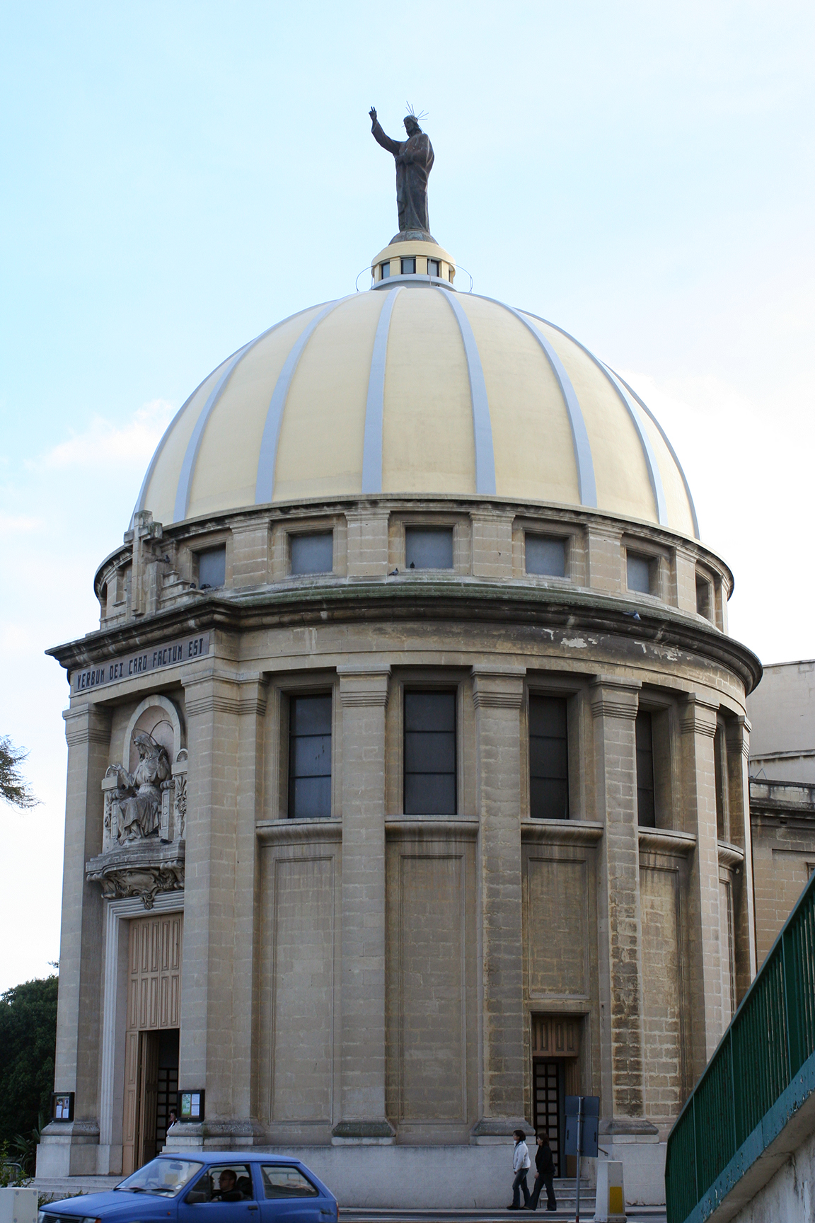 Chapel of the M.U.S.E.U.M. in Blata l-Bajda, Hamrun, Malta